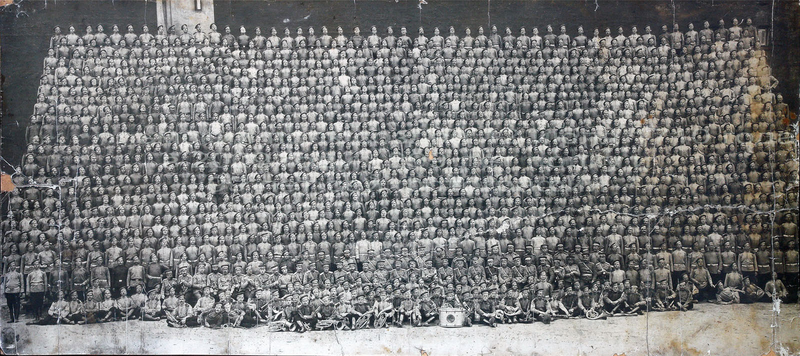 Unique Photo of the Emperor of Austria's Life-Guards Kexholm Regiment, founded in 1710 by Peter the Great and engaged in twenty wars. This photograph shows more than 1,000 people, arranged in 25 rows of 50 men each. Photo original size is 110 x 60 cm. The camera and the objective with a diameter of about 1 meter were specially built for this picture. Photographed in 1903, author unknown. From the archives of the Union of Photographers of Russia